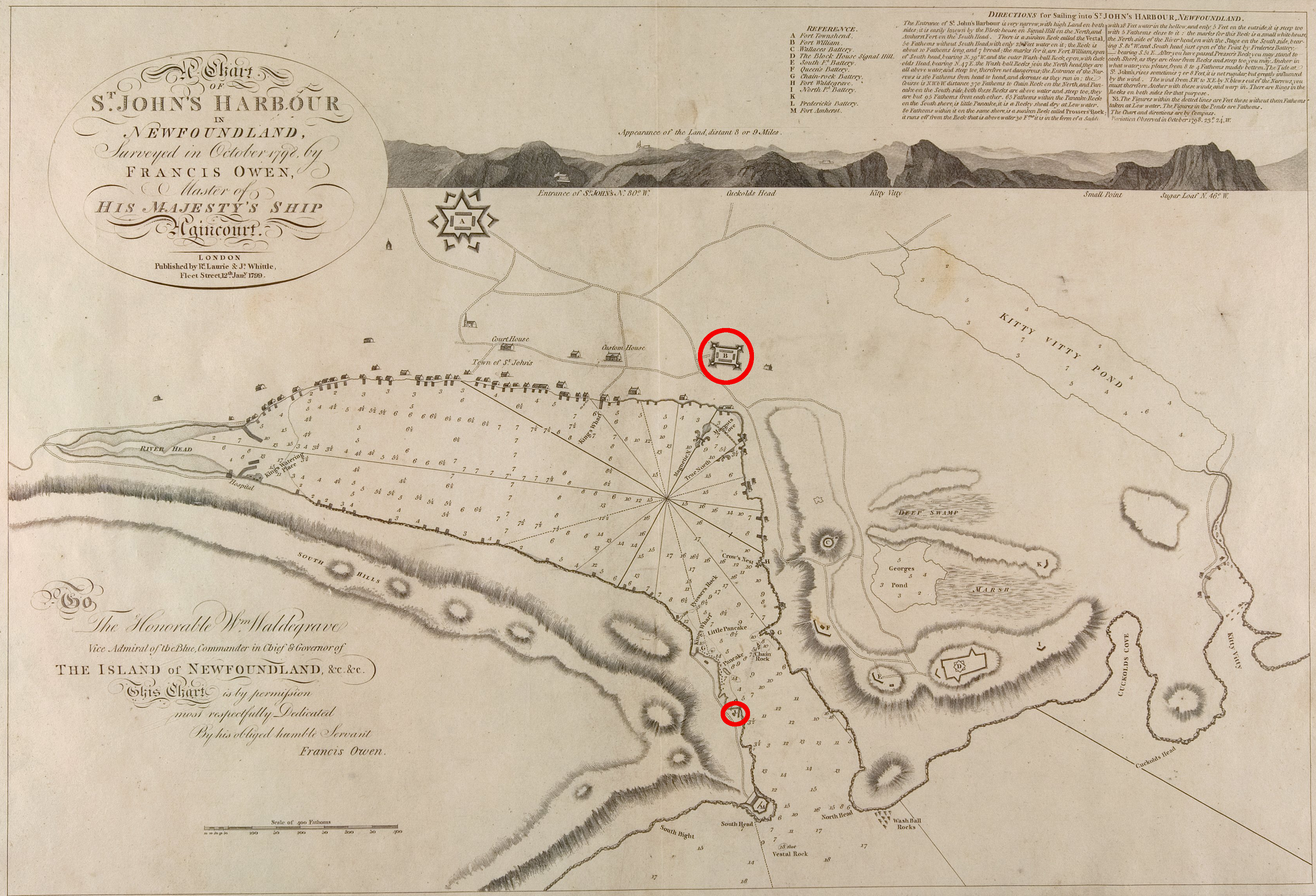 A 1798 map of St. John's, Newfoundland. It has been annotated to highlight Fort William and the South Castle, locations important in battles for St. John's during the War of the Spanish Succession.